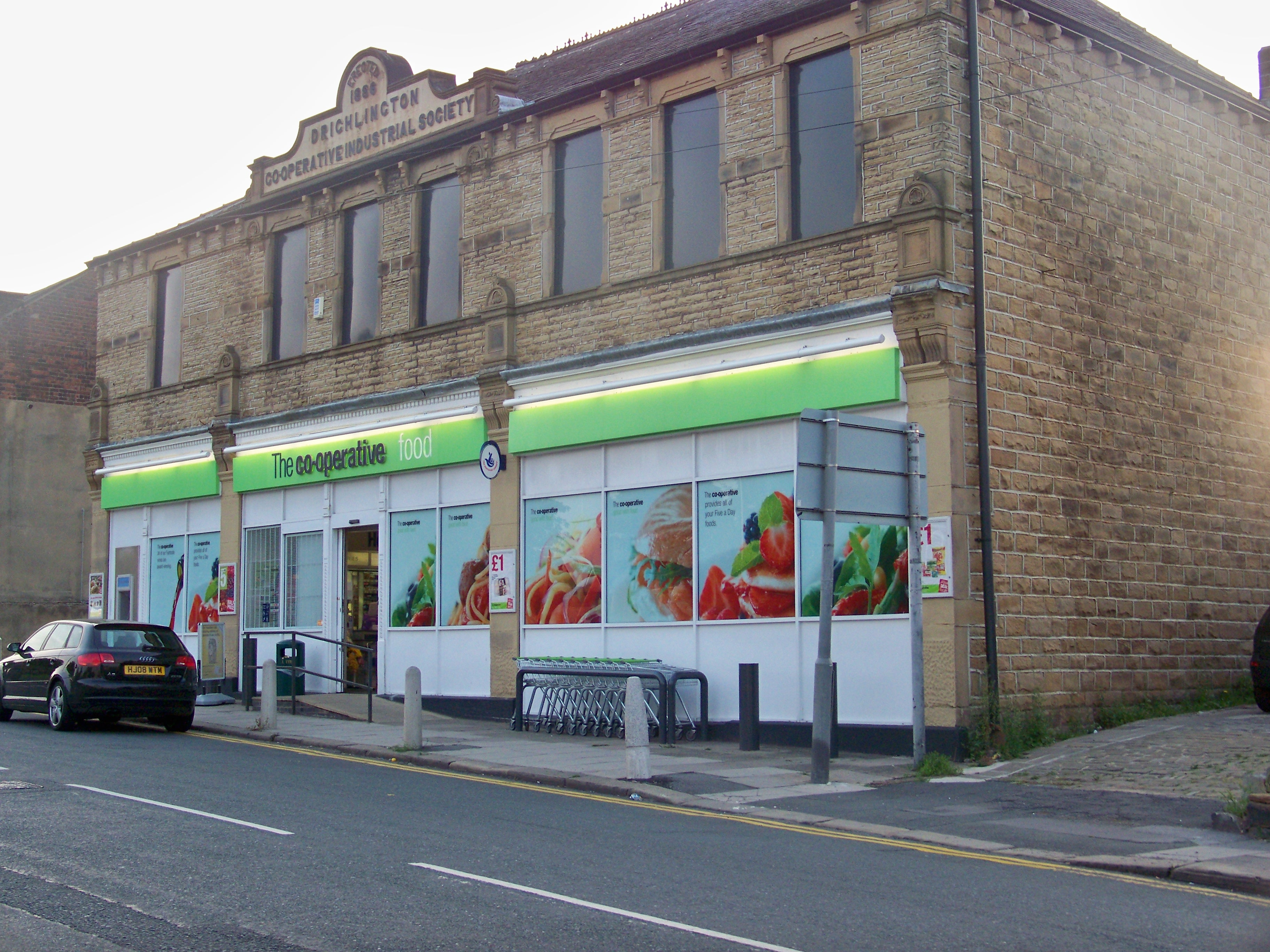 The Co-operative in Drighlington, Leeds, West Yorkshire. Notice the inscription Erected 1886 - Drighlington Co-operative Industrial Society on the gable. Taken on the evening of Wednesday 1st July 2009.